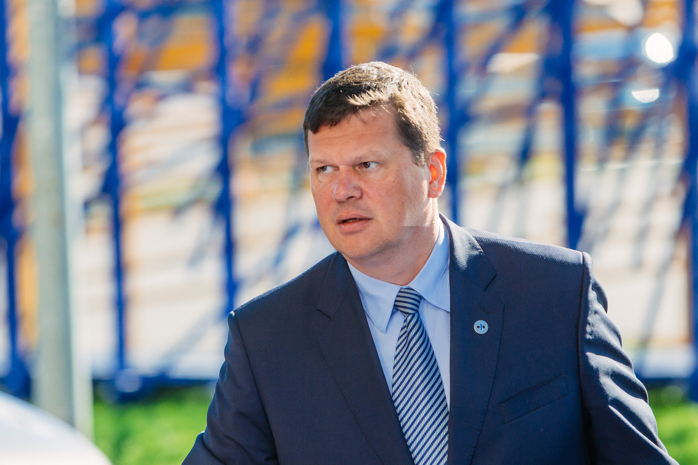 Kaspars Gerhards, Minister, Ministry of Environmental Protection and Regional Development, Latvia